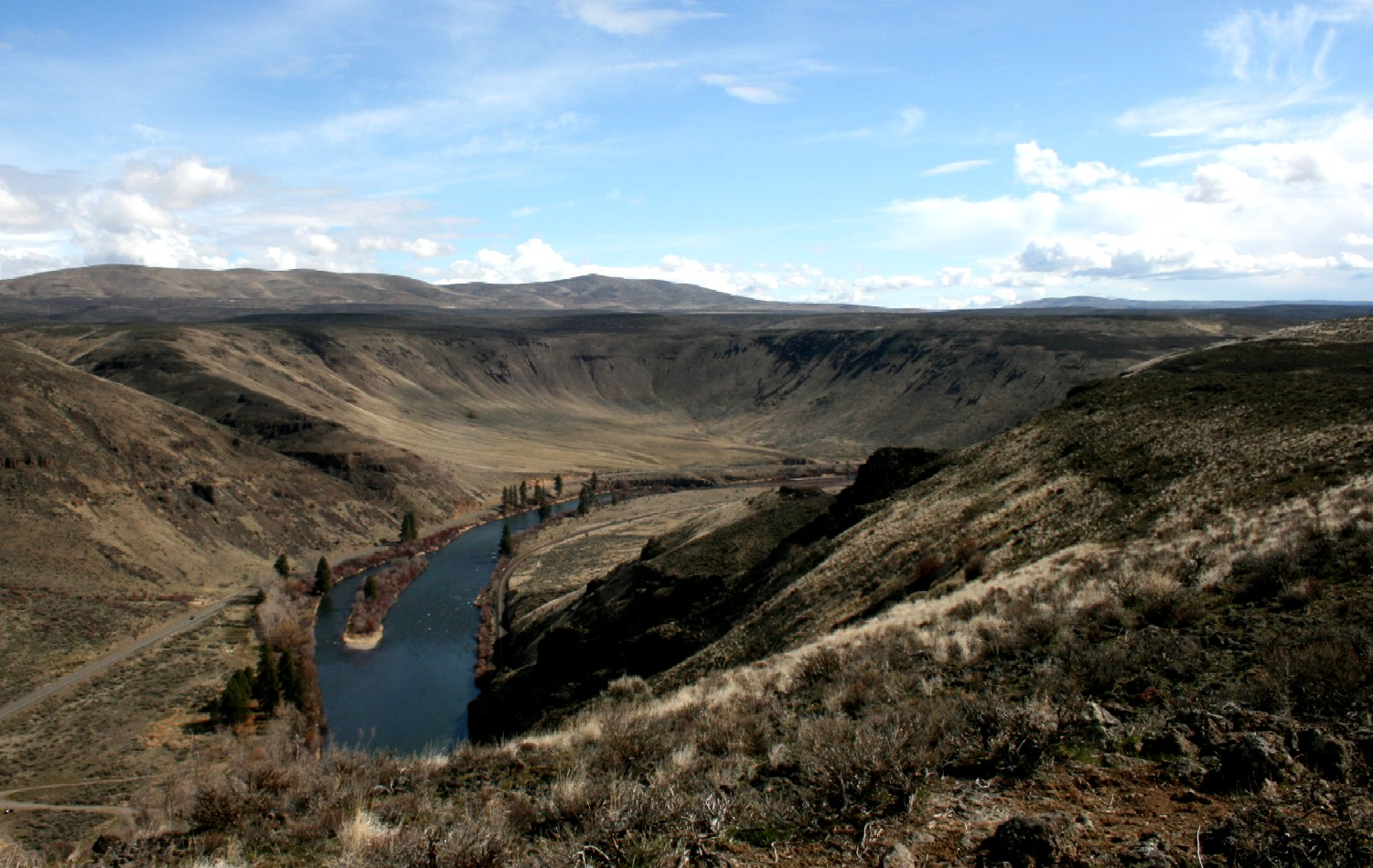 View taken looking south from Umtanum Ridge into the Yakima River Canyon. For use with the article on Umtanum Ridge Water Gap and a later Yakima Belt Folks article in Wikipedia. Photograph was taken by the uploader.